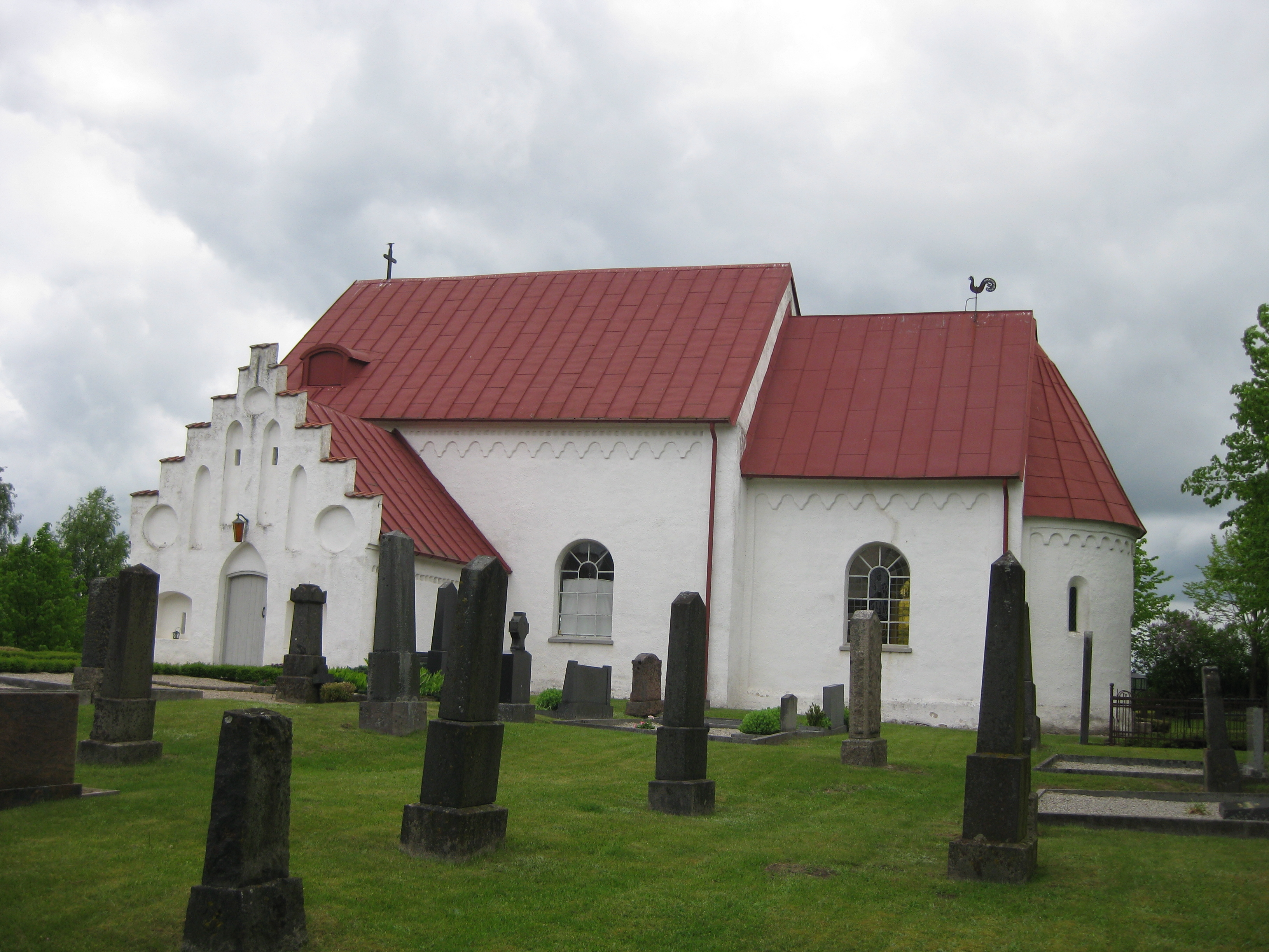 Björka church in Skåne, Sweden